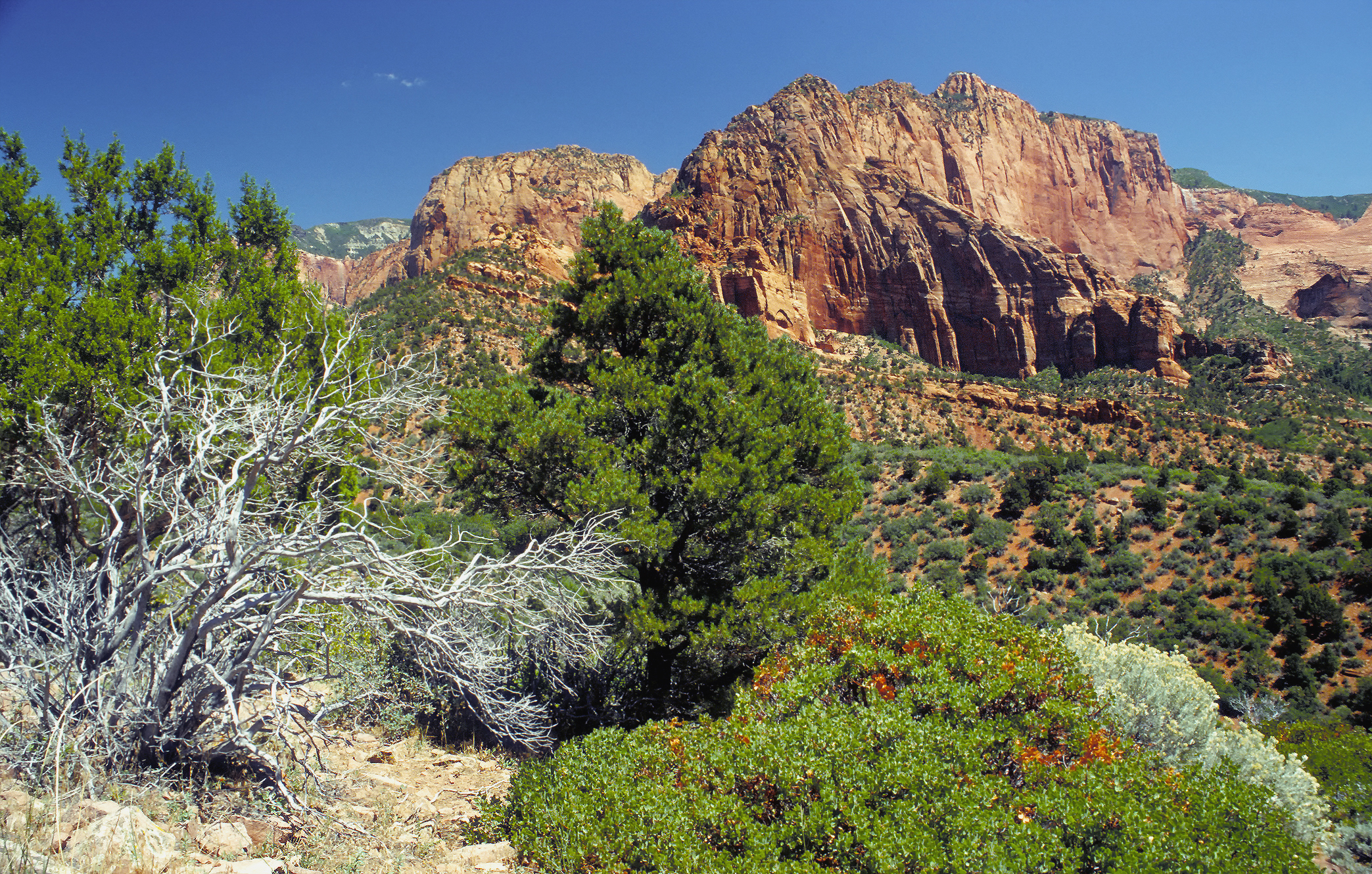 View in the Kolob Canyons. Kolob Canyons is the northwest section of Zion National Park, Utah, United States. The Kolob Canyons are part of the Colorado Plateau region of the Zion National Park and are noted for their colorful beauty and diverse landscape. This part of Zion National Park is accessed by a park road about 20 miles south of Cedar City, Utah off Interstate 15.